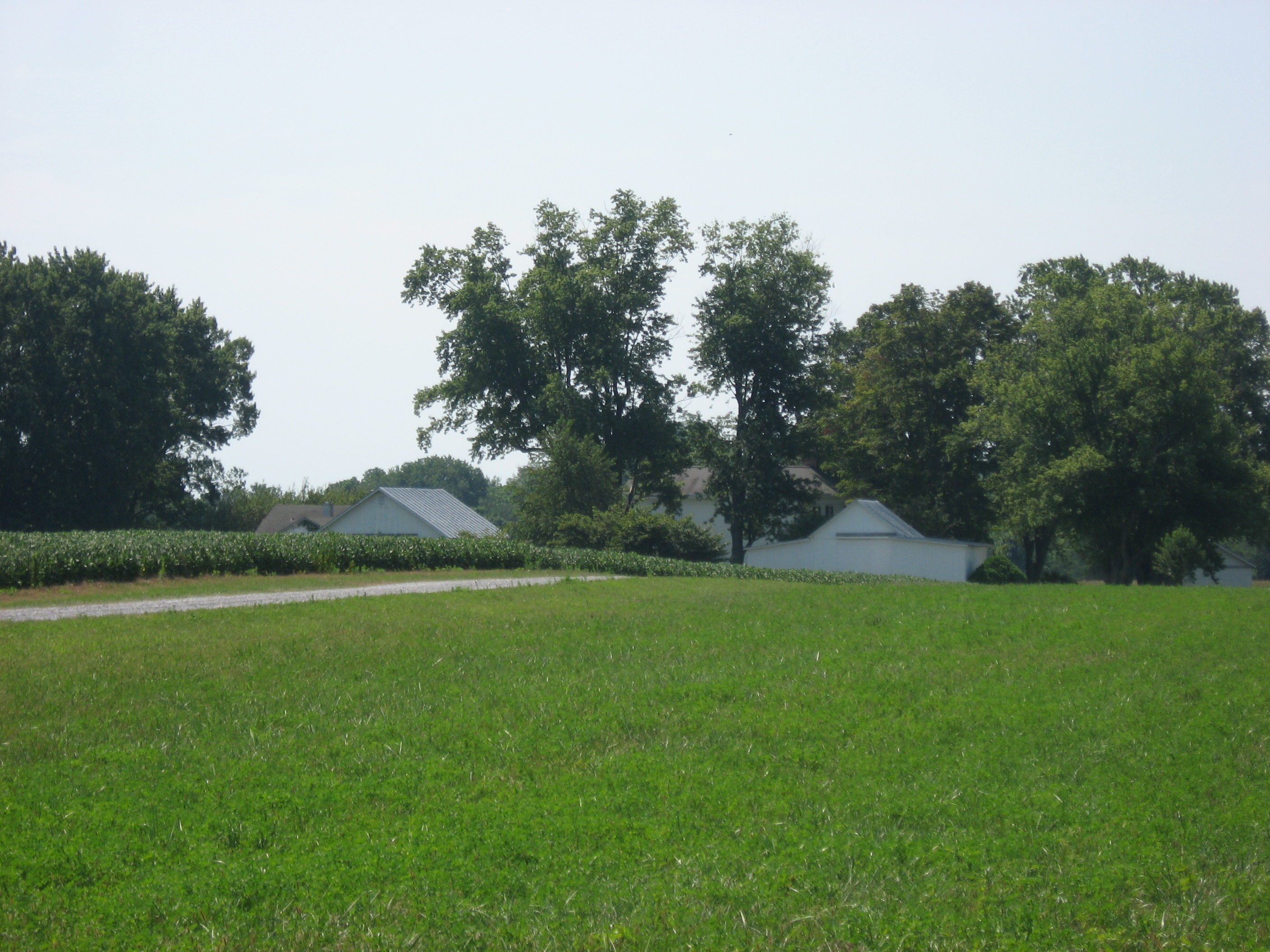 Buildings at the John Wood Farmstead, located at 5255 W. 900S near Milroy in Orange Township, Rush County, Indiana, United States. The farmstead is listed on the National Register of Historic Places.